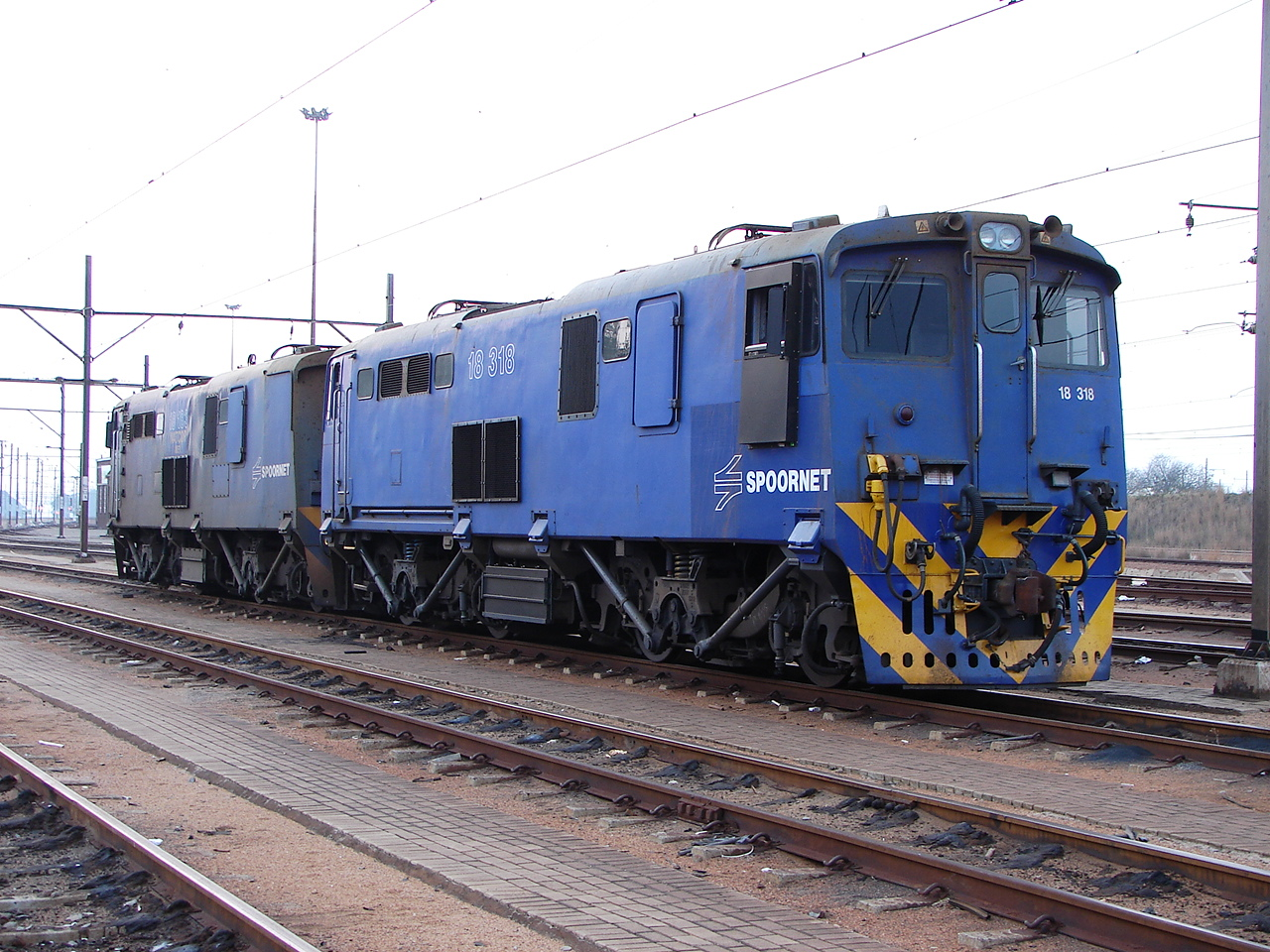 Spoornet Class 18E Series 1 18-318Location: Sentrarand, GautengHistory: Rebuilt in 2007 from Class 6E1 Series 7 E1881